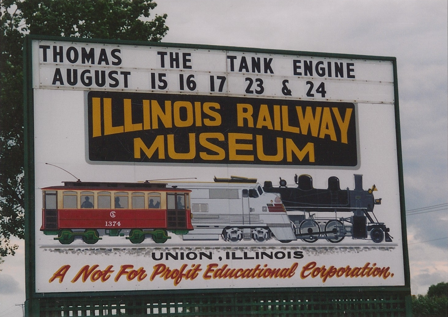 The entrance sign at the Illinois Railway Museum in Union, Illinois (United States).